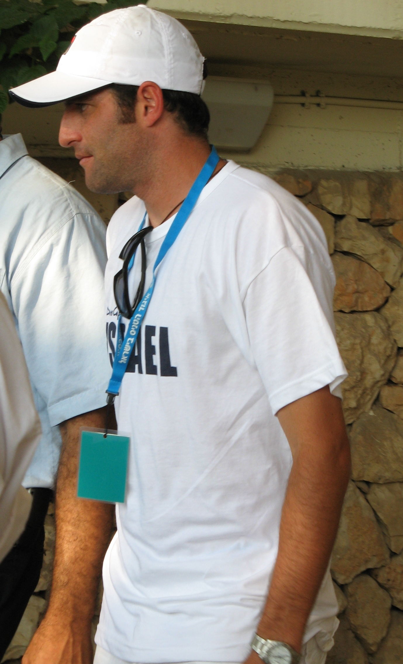 Jonathan Erlich after the second day of the Davis Cup matches between Israel & Peru